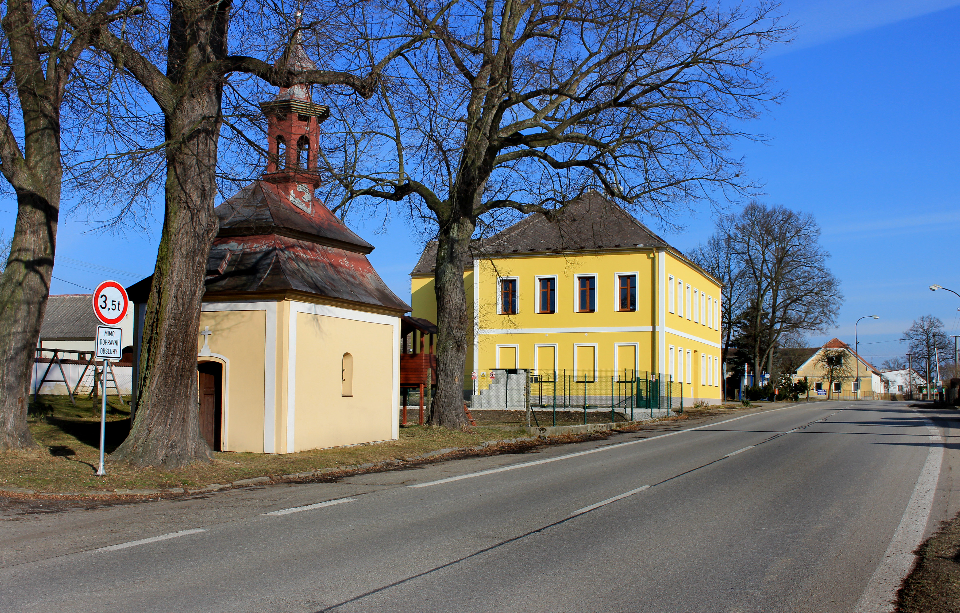 Road No 23 in Doňov village, Czech Republic.